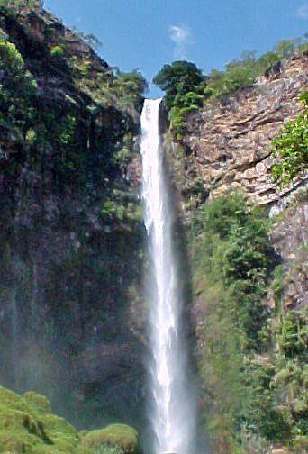 Itiquira Falls, Formosa, Goiás, Brazil.